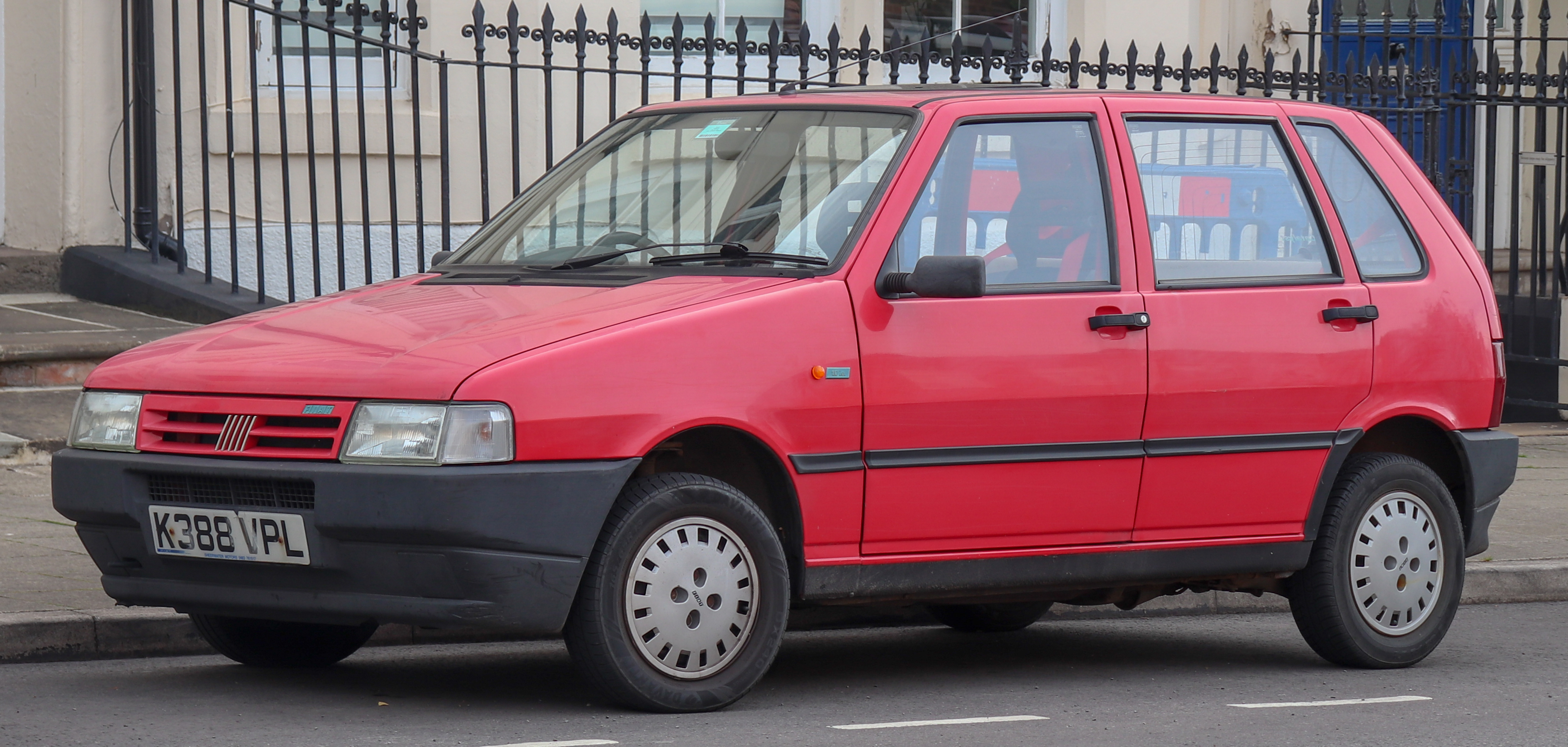 1992 Fiat Uno IE 1.0 Front Taken in Leamington Spa